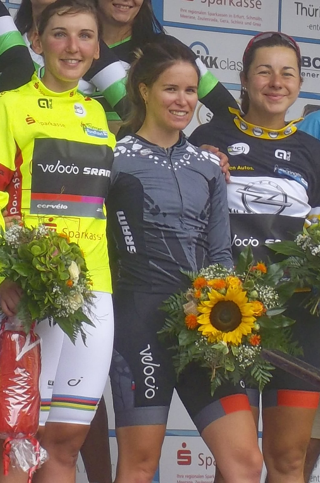 On the podium of the Thuringen Rundfahrt 2015 after stage 3a, Lisa Brennauer & Karol-Ann Canuel